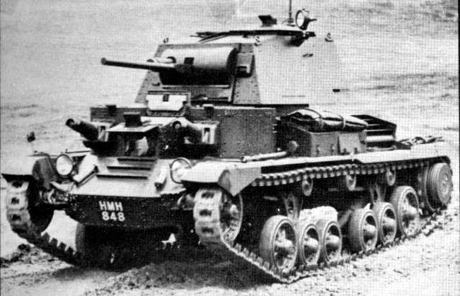 Mark1 Cruiser Tank, Great Britain, WW 2